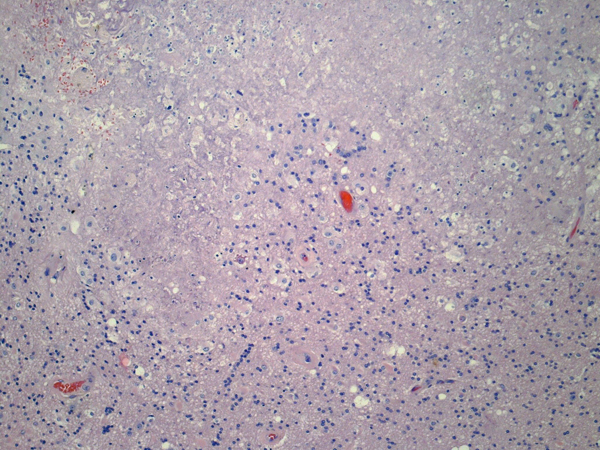 Intermediate power microscopy. Radiation necrosis superiorly, gliosis inferiorly. Arteriosclerotic changes, particularly at 6 o'clock blood vessel. Please also see